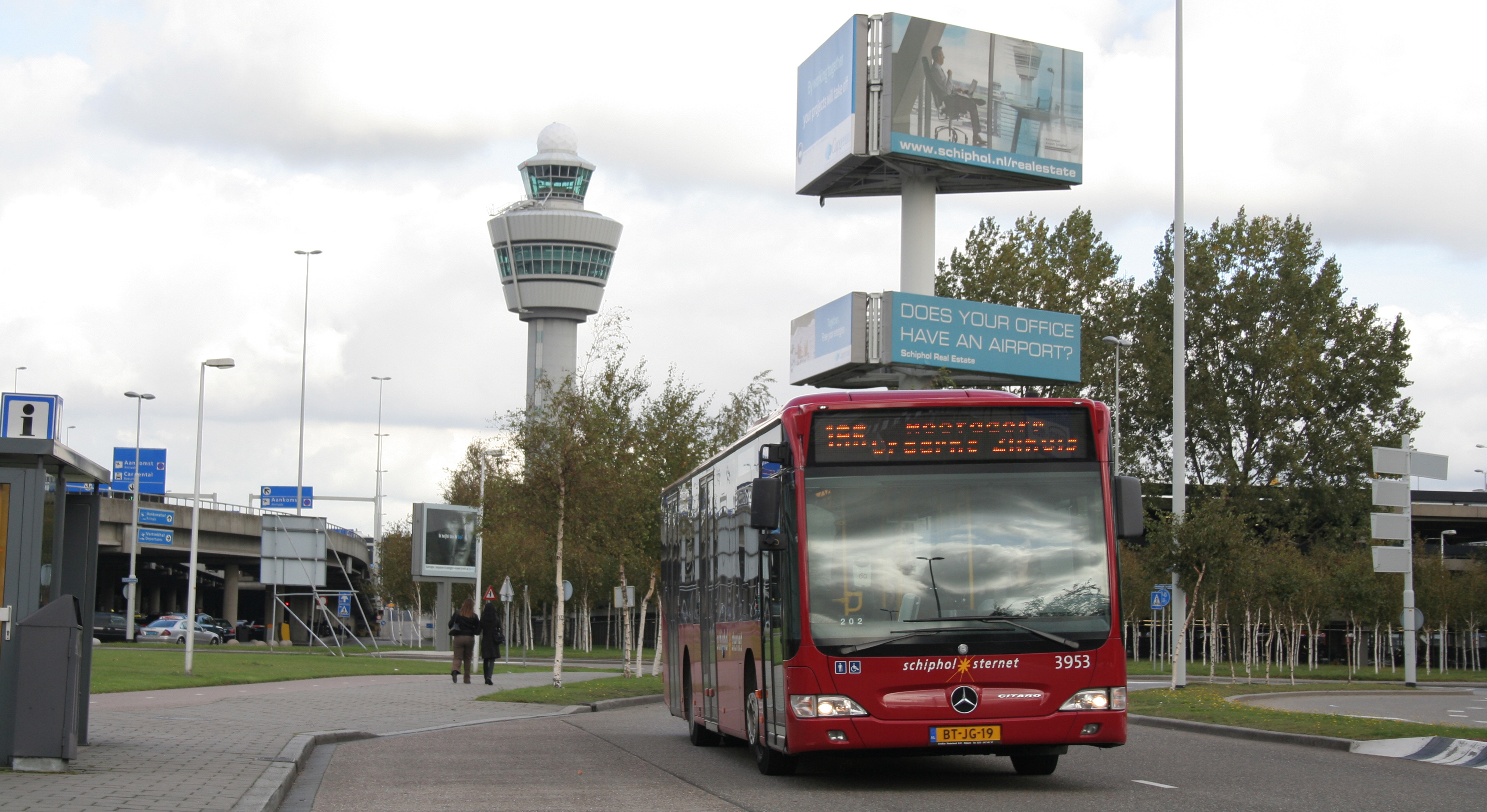 Schiphol Sternet Citaro Bus